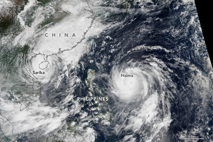 Within the span of a week, powerful back-to-back typhoons pummeled the Philippines in October. First, Typhoon Sarika made landfall over Luzon on October 15, 2016. Then Typhoon Haima hit the island four days later. Both storms are visible in this image, acquired October 18, 2016, with the Visible Infrared Imaging Radiometer Suite (VIIRS) on the Suomi NPP satellite. The image is comprised of two natural-color scenes, acquired about 40 minutes apart, that have been stitched together to form a seamless image. At the time, Haima was a category 4 super typhoon with top sustained winds of about 240 kilometers (150 miles) per hour. The storm was about 900 kilometers (600 miles) from Luzon and approaching from the east. Before Haima made landfall in northern Luzon, soils were already saturated by the deluge previously delivered by Typhoon Sarika. According to news reports, some towns saw about 550 millimeters (22 inches) of rain on October 14 and 15. “It’s likely that Haima will cause slides in both the Philippines and China,” said Thomas Stanley, a geoscientist at NASA’s Goddard Space Flight Center who catalogs rainfall-triggered landslides. He points out that a number of landslides, presumably due to Sarika, have already been reported, including a deadly event in southwestern Luzon. Haima strengthened into a category 5 storm and then weakened slightly as it started to interact with Luzon’s mountainous terrain on October 19. According to relief agencies, food supplies could be threatened as central Luzon is where most of the country’s rice is grown. More immediately, thousands of families have been displaced.